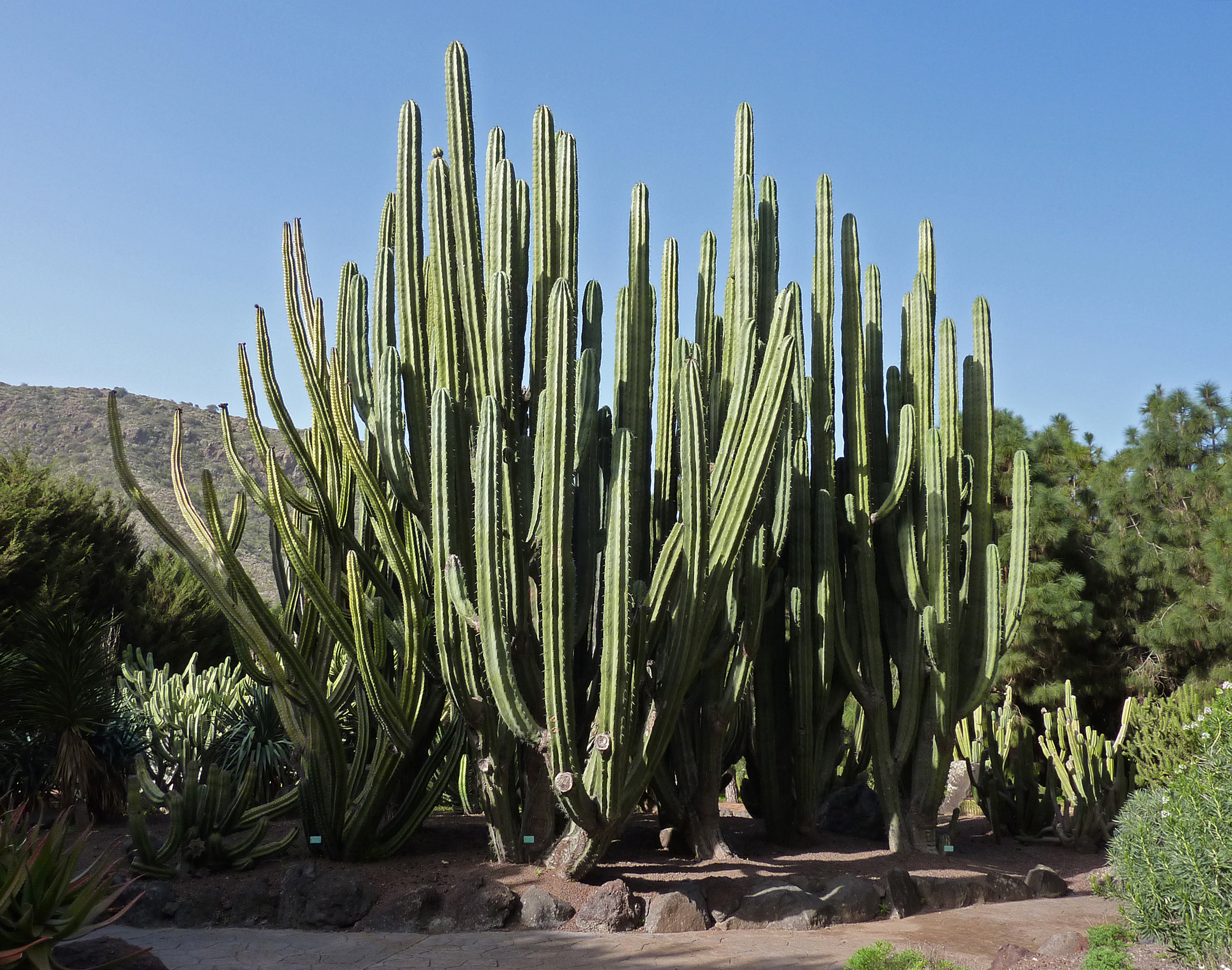 Pachycereus weberi in the Jardín Botánico Canario Viera y Clavijo.